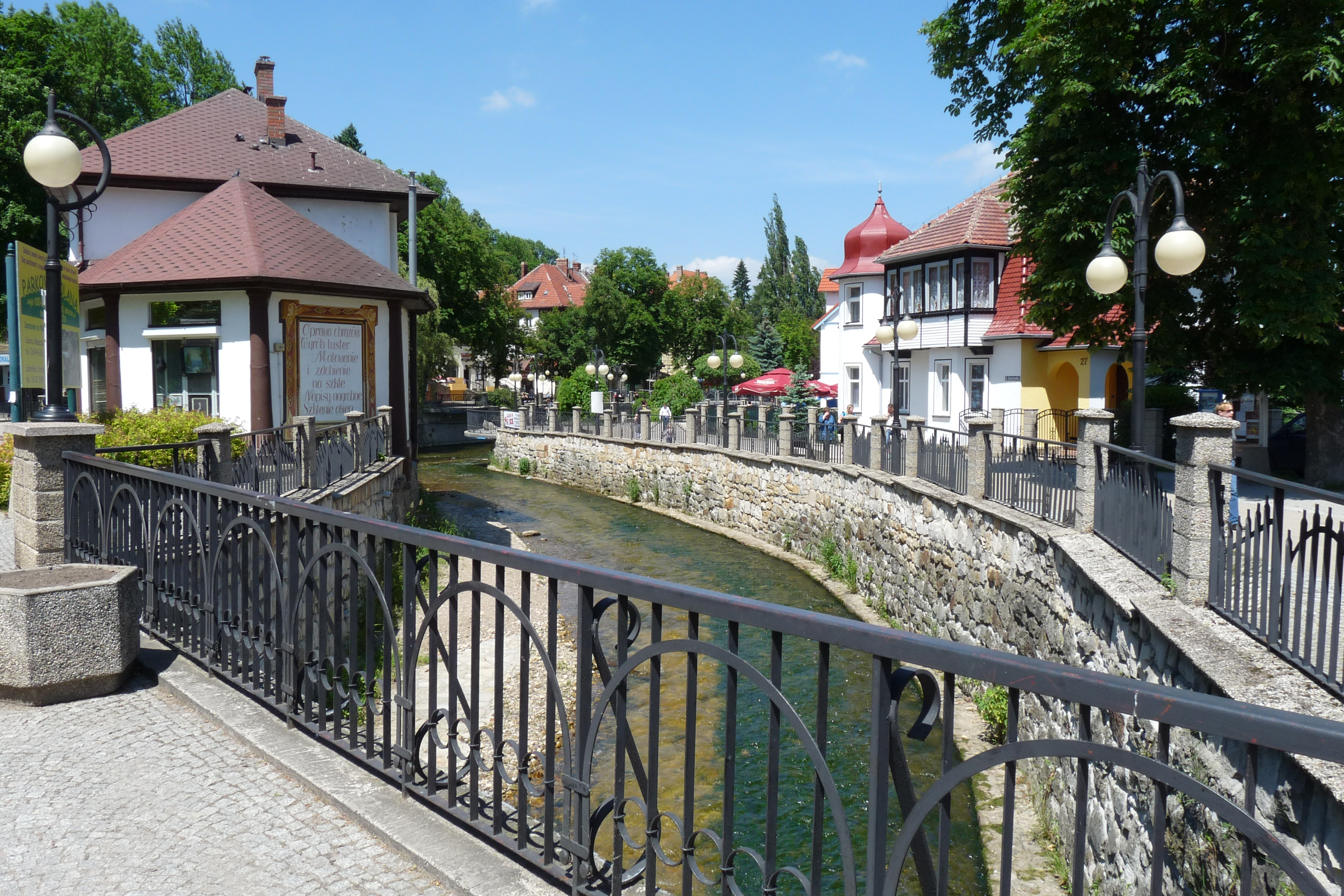 Polanica-Zdrój